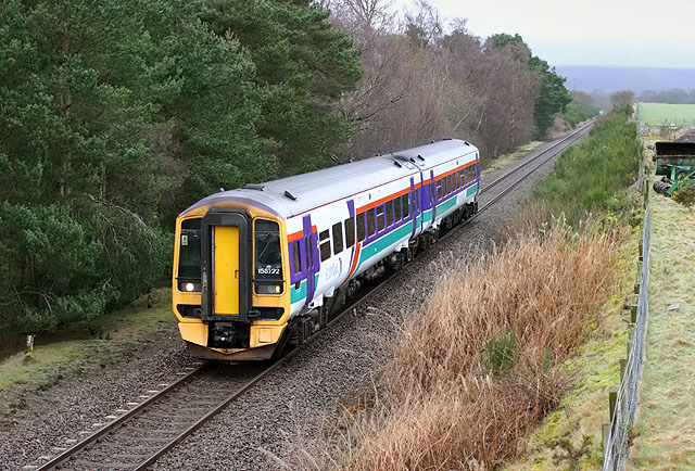 Railway near Muir of Ord Golf Course The first train of the day, the 07:14 Inverness to Wick approaches Muir of Ord.